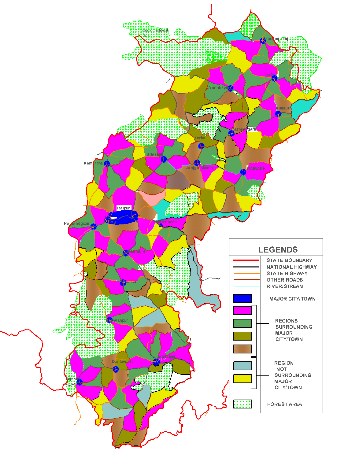 regional modules required for unified development of a region